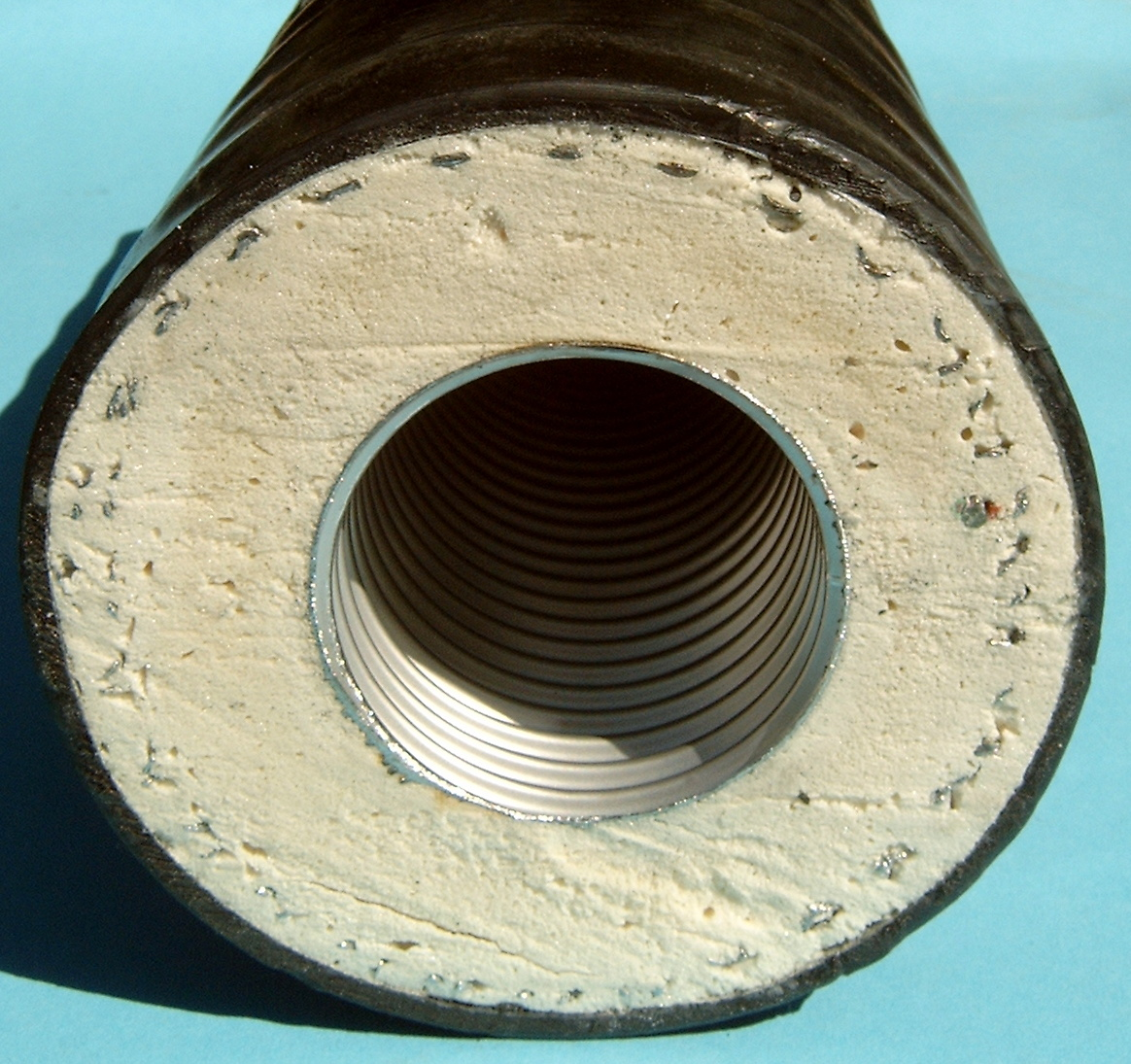 brand-new flexible bonded system pipe with metal service pipe made of corrugated stainless steel, thermal insulation made of polyurethane foam with expanded metal inlay nearby the casing pipe, casing pipe made of polyethylene; dimension 60/126